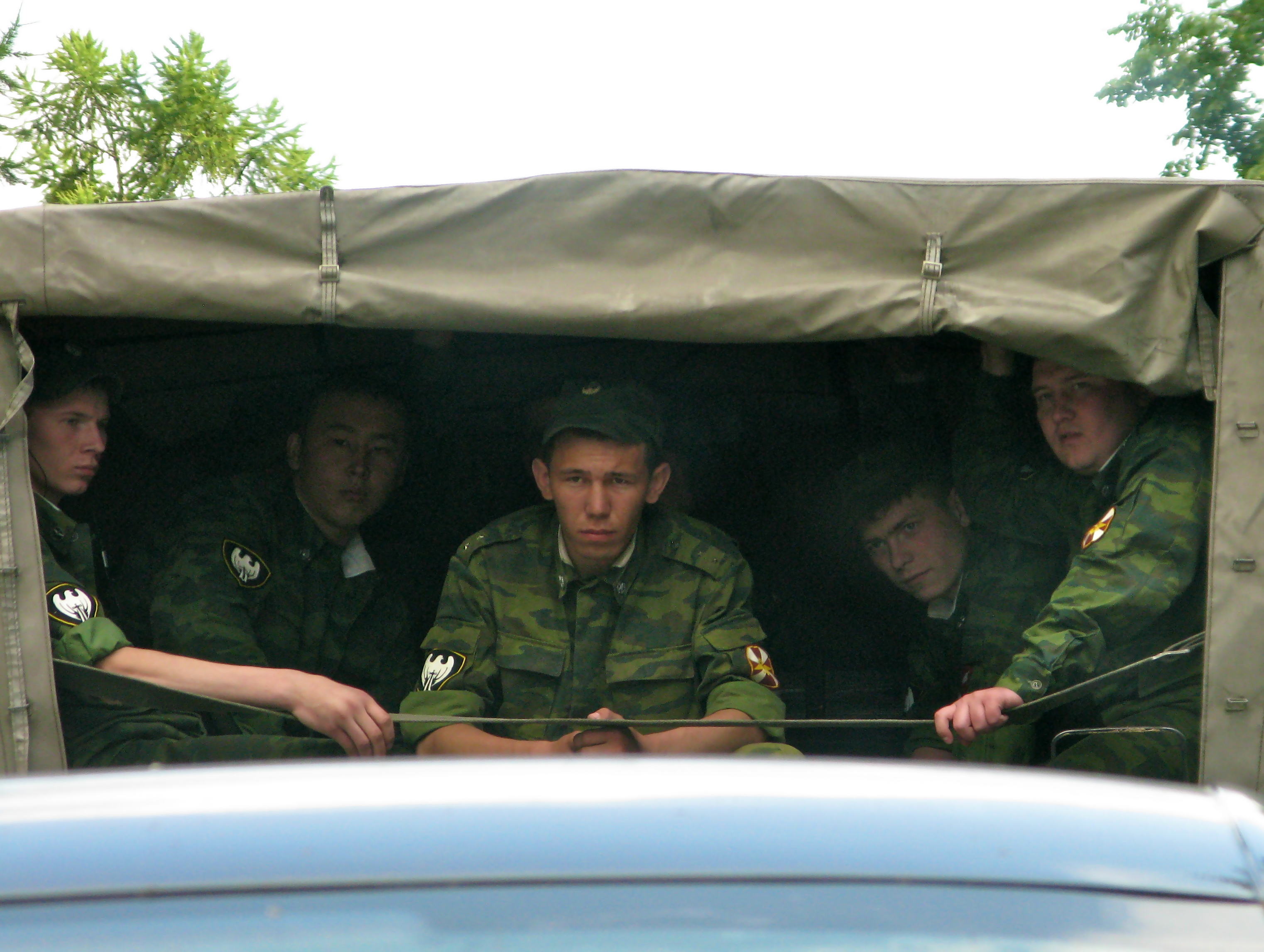 Ministry of Interior soldiers